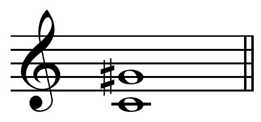 Augmented fifth on C = G♯. Just: 25:16 = 772.63 cents. Equal-tempered: 28/12:1 = 800 cents. Created by Hyacinth (talk) 04:05, 8 January 2011 using Sibelius 5.